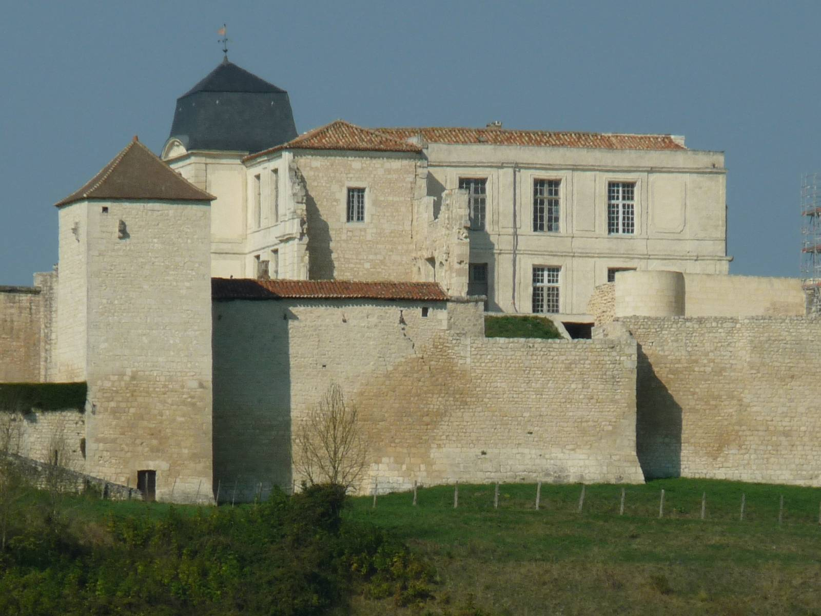 castle of Villebois-Lavalette, Charente, SW France. From the left: Tour de la Vigie, main building, base of former keep.